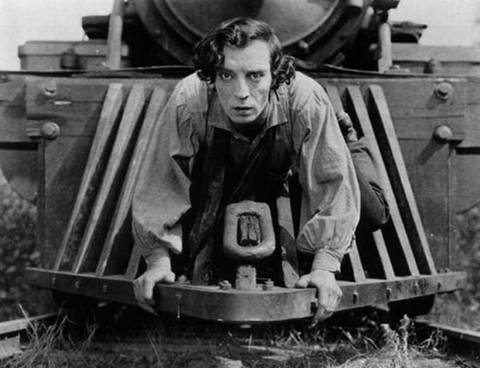 Screenshot of Buster Keaton from the 1926 film 'The General'